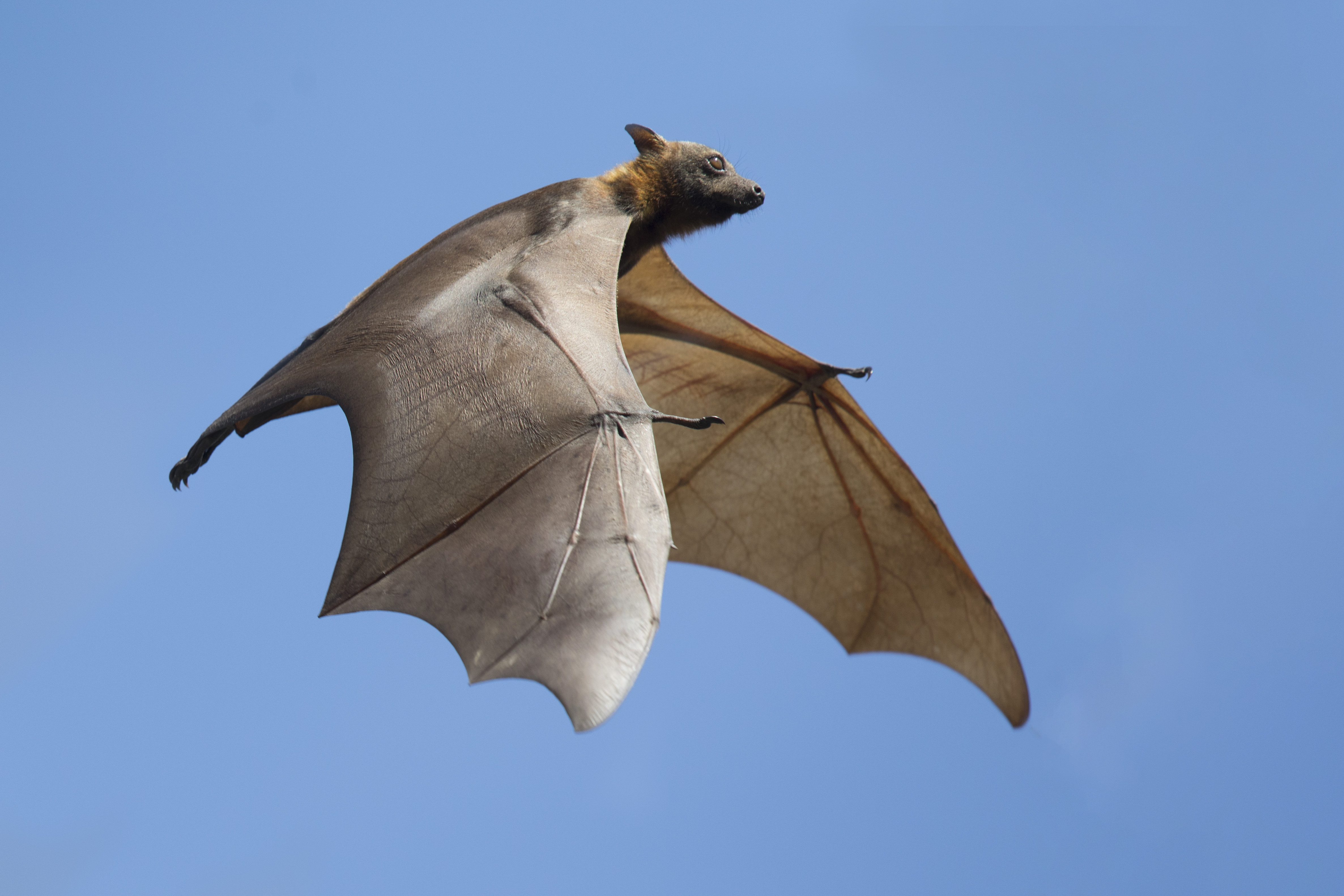 Black flying fox